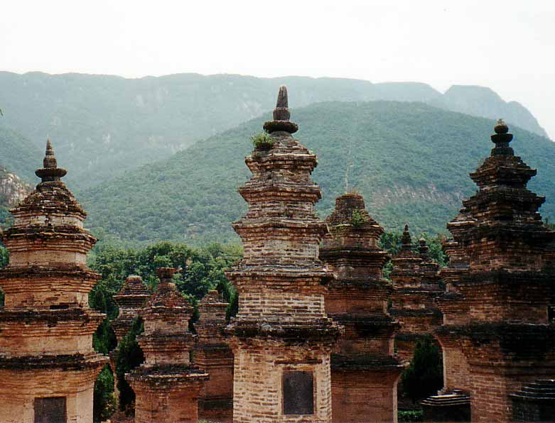 Photo of the Pagoda Forest, located about 300 meters west of the Shaolin temple in the Henan province, China.